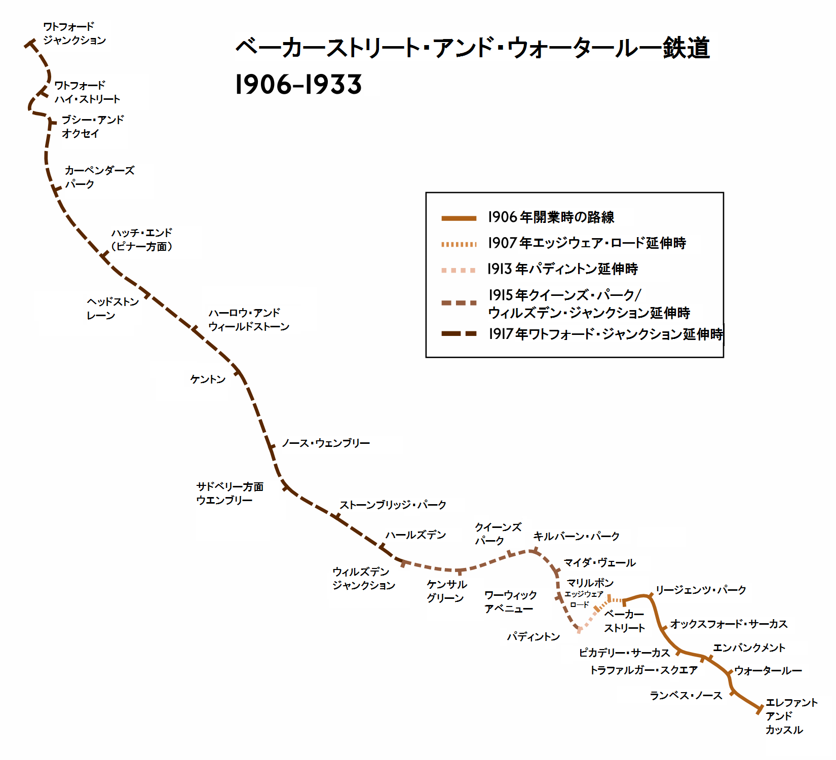 Geographic Map of the Baker Street & Waterloo Railway